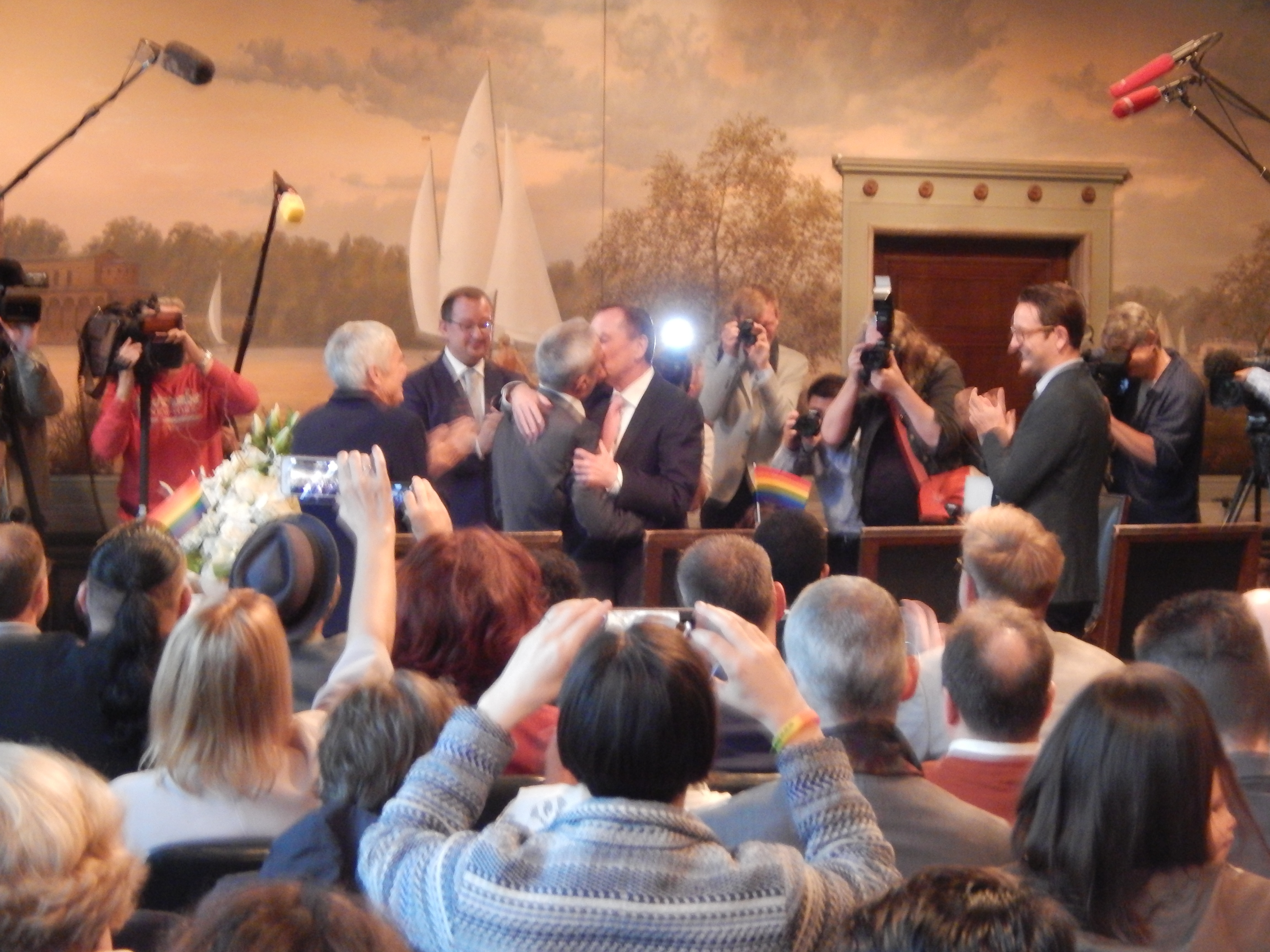 first gay marriage in Germany, Berlin, Rathaus Schöneberg, Goldener Saal